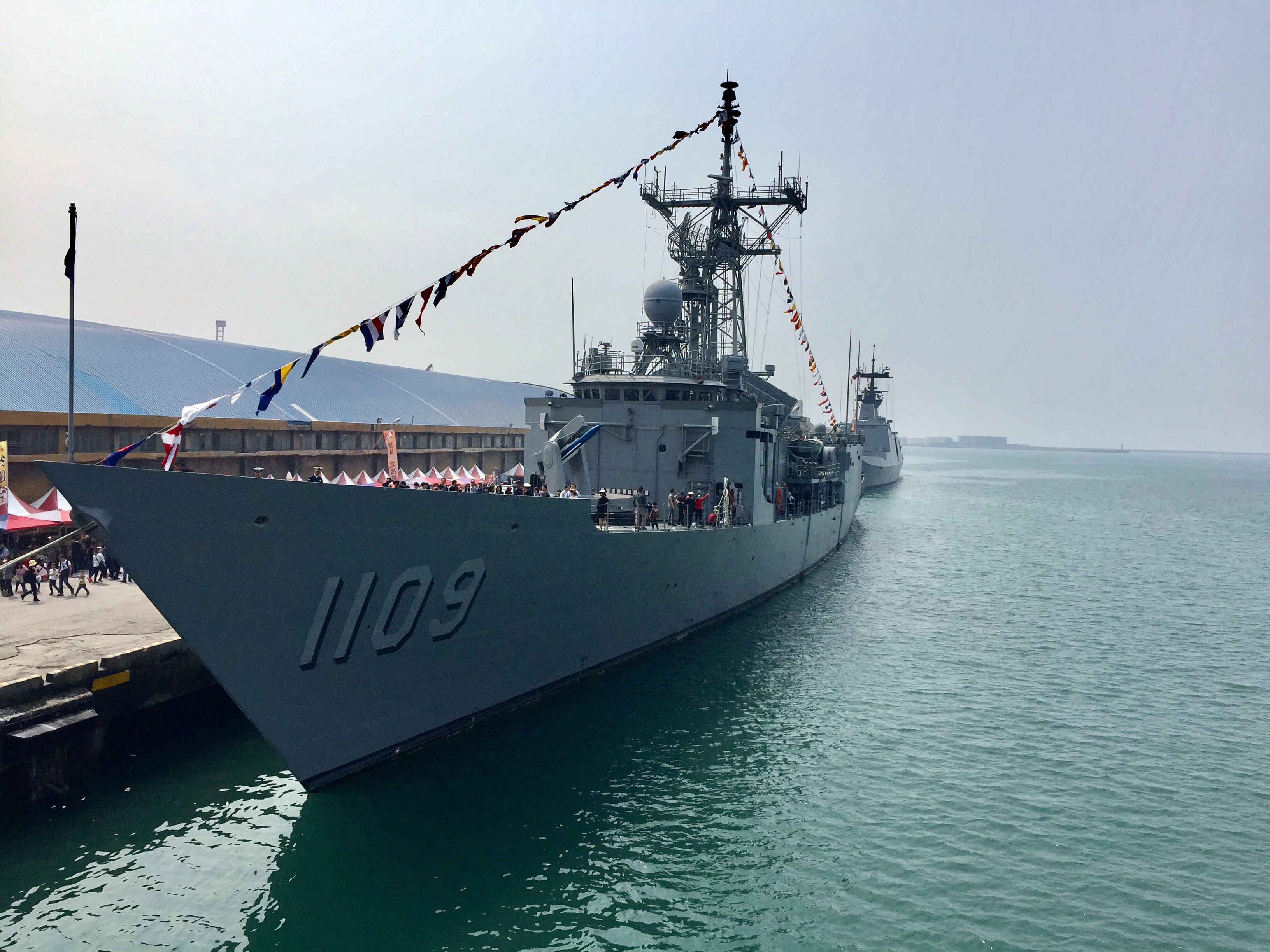 ROC Navy Chang Chien (PFG2-1109) of Midshipmen Cruising & Training Squadron at Wharf A5, Port of Taichung.